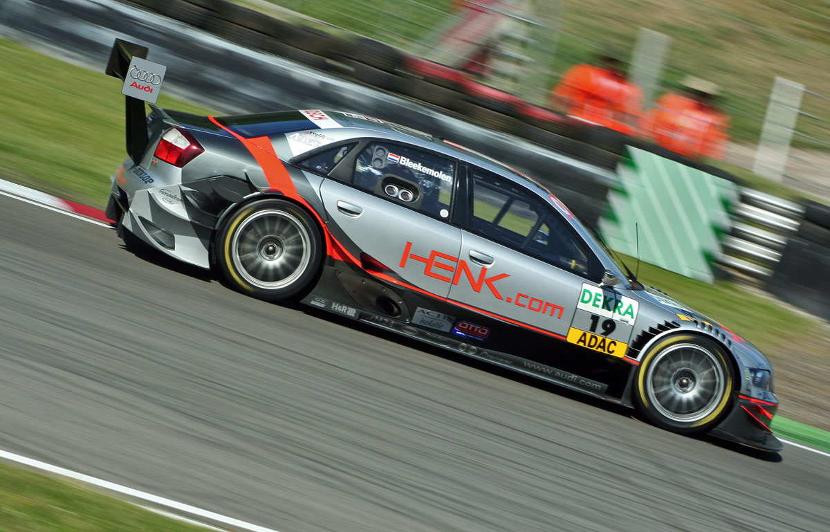 Jeroen Bleekemolen driving for Audi in the 2006 Deutsche Tourenwagen Masters season.